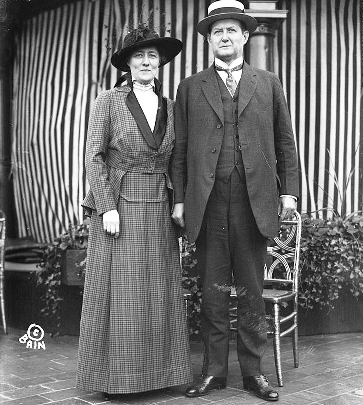 Bain News Service,, publisher. Ex-Gov. John Slaton and wife 1915 June 30 (date created or published later by Bain) 1 negative : glass ; 5 x 7 in. or smaller. Notes: Title from data provided by the Bain News Service on the negative. Photograph shows Sarah "Sally" Frances Grant, wife of John Marshall Slaton, who served as Governor of Georgia. (Source: Flickr Commons project, 2012) Forms part of: George Grantham Bain Collection (Library of Congress). Format: Glass negatives. Repository: Library of Congress, Prints and Photographs Division, Washington, D.C. 20540 USA, General information about the Bain Collection is available at Higher resolution image is available (Persistent URL): Call Number: LC-B2- 3531-6